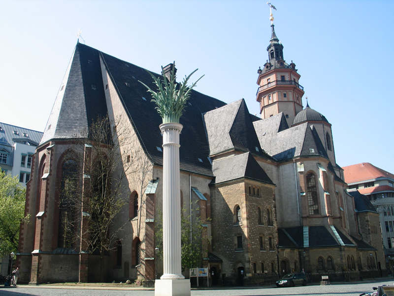 Church of Nikolai Leipzig/Germany